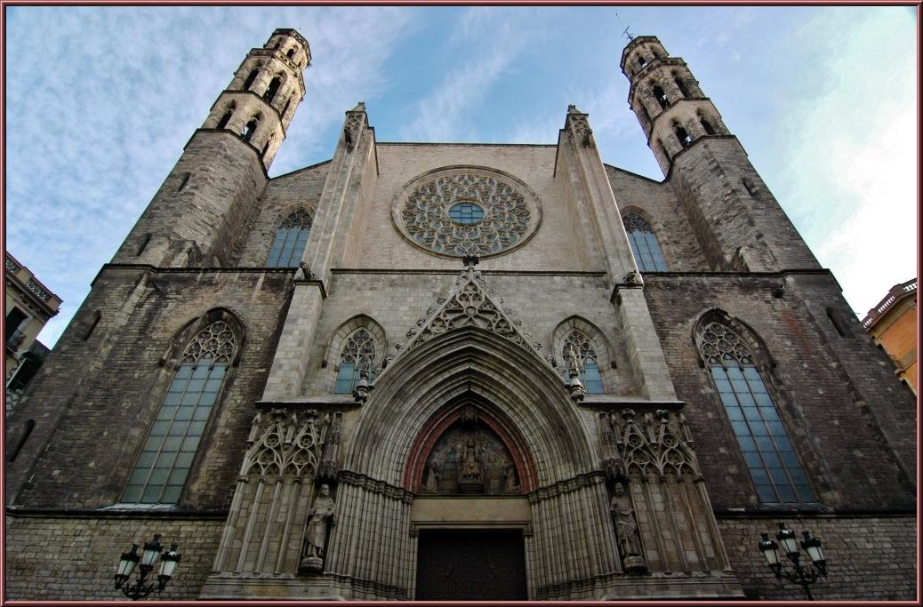 Santa Maria del Mar in Barcelona